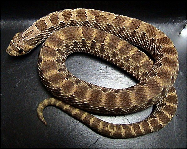 Photographer: LA Dawson Animal courtesey of Austin Reptile Service.